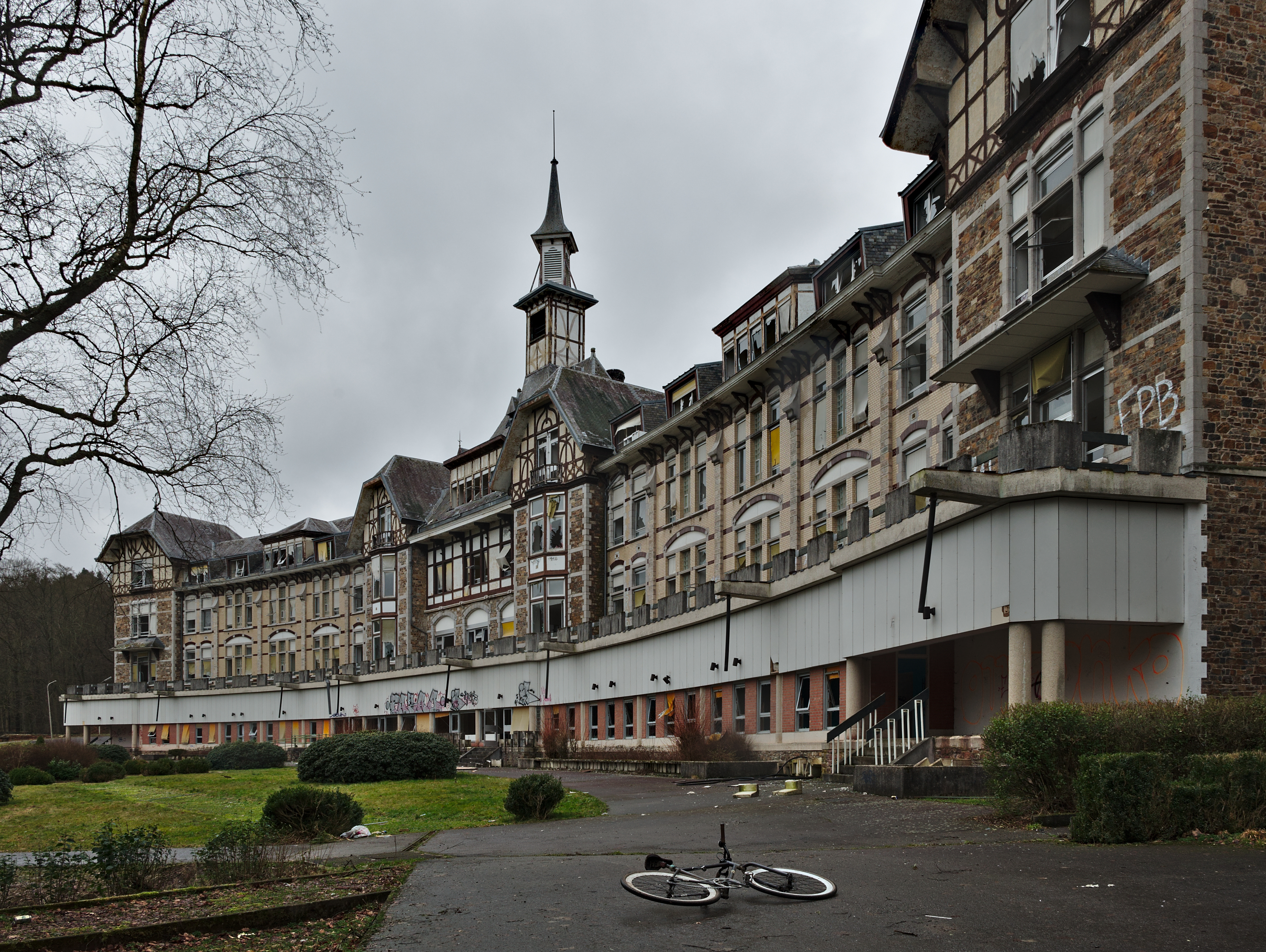 Sanatorium du Basil and a bicycle, looking West (Stoumont, Belgium, DSCF3491)